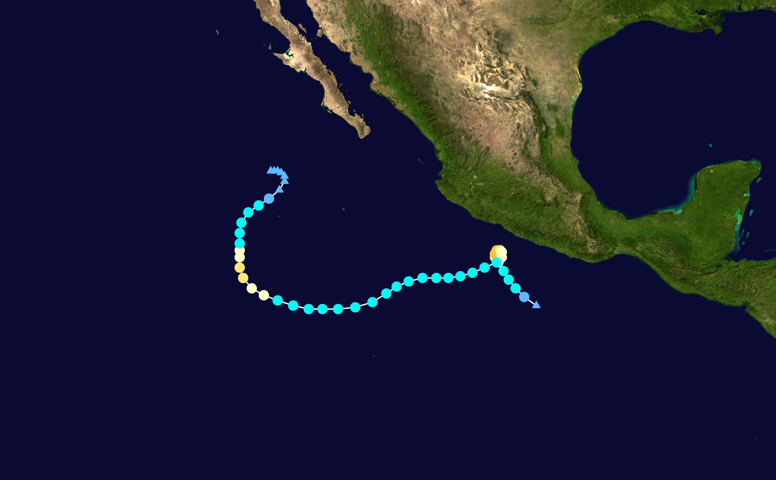 Track map of Hurricane Raymond of the 2013 Pacific hurricane season. The points show the location of the storm at 6-hour intervals. The colour represents the storm's maximum sustained wind speeds as classified in the Saffir–Simpson scale (see below), and the shape of the data points represent the nature of the storm, according to the legend below. Saffir–Simpson scale Tropical depression≤38 mph≤62 km/h Category 3111–129 mph178–208 km/h Tropical storm39–73 mph63–118 km/h Category 4130–156 mph209–251 km/h Category 174–95 mph119–153 km/h Category 5≥157 mph≥252 km/h Category 296–110 mph154–177 km/h Unknown Storm type Tropical cyclone Subtropical cyclone Extratropical cyclone / Remnant low / Tropical disturbance / Monsoon depression